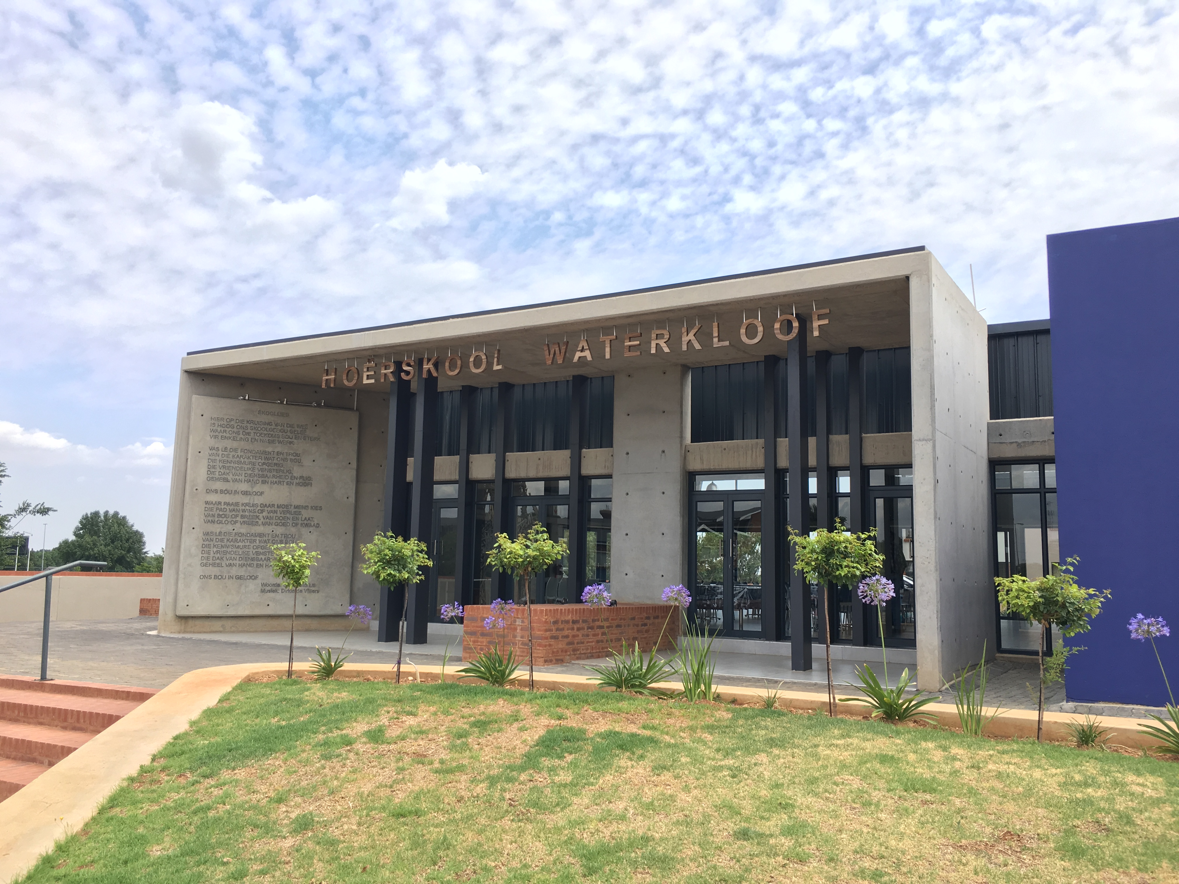 Entrance and surrounds of the Hoërskool Waterkloof project with a sculpture by Angus Taylor in foreground.